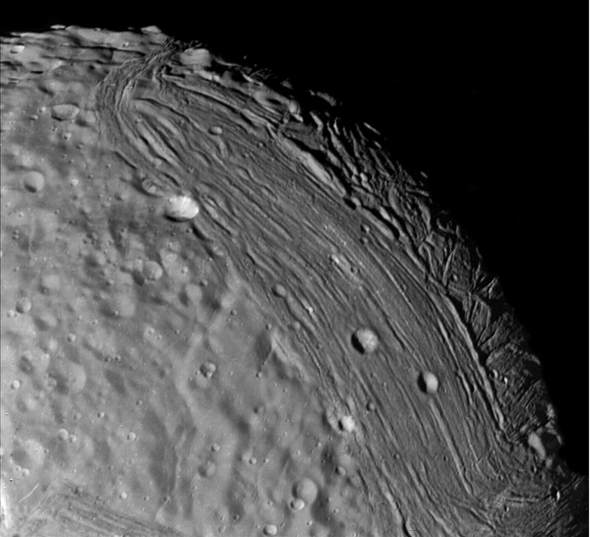 Miranda reveals a complex geologic history in this view, acquired by Voyager 2 on January 24, 1986, around its close approach to the Uranian moon. At least three terrain types of different age and geologic style are evident at this resolution of about 700 meters (2,300 feet). Visible in this clear-filter, narrow-angle image are, from left: (1) an apparently ancient, cratered terrain consisting of rolling, subdued hills and degraded medium-sized craters (2) a grooved terrain with linear valleys and ridges developed at the expense of, or replacing, the first terrain type: and (3) a complex terrain seen along the terminator, in which intersecting curvilinear ridges and troughs are abruptly truncated by the linear, grooved terrain. Voyager scientists believe this third terrain type is intermediate in age between the first two.